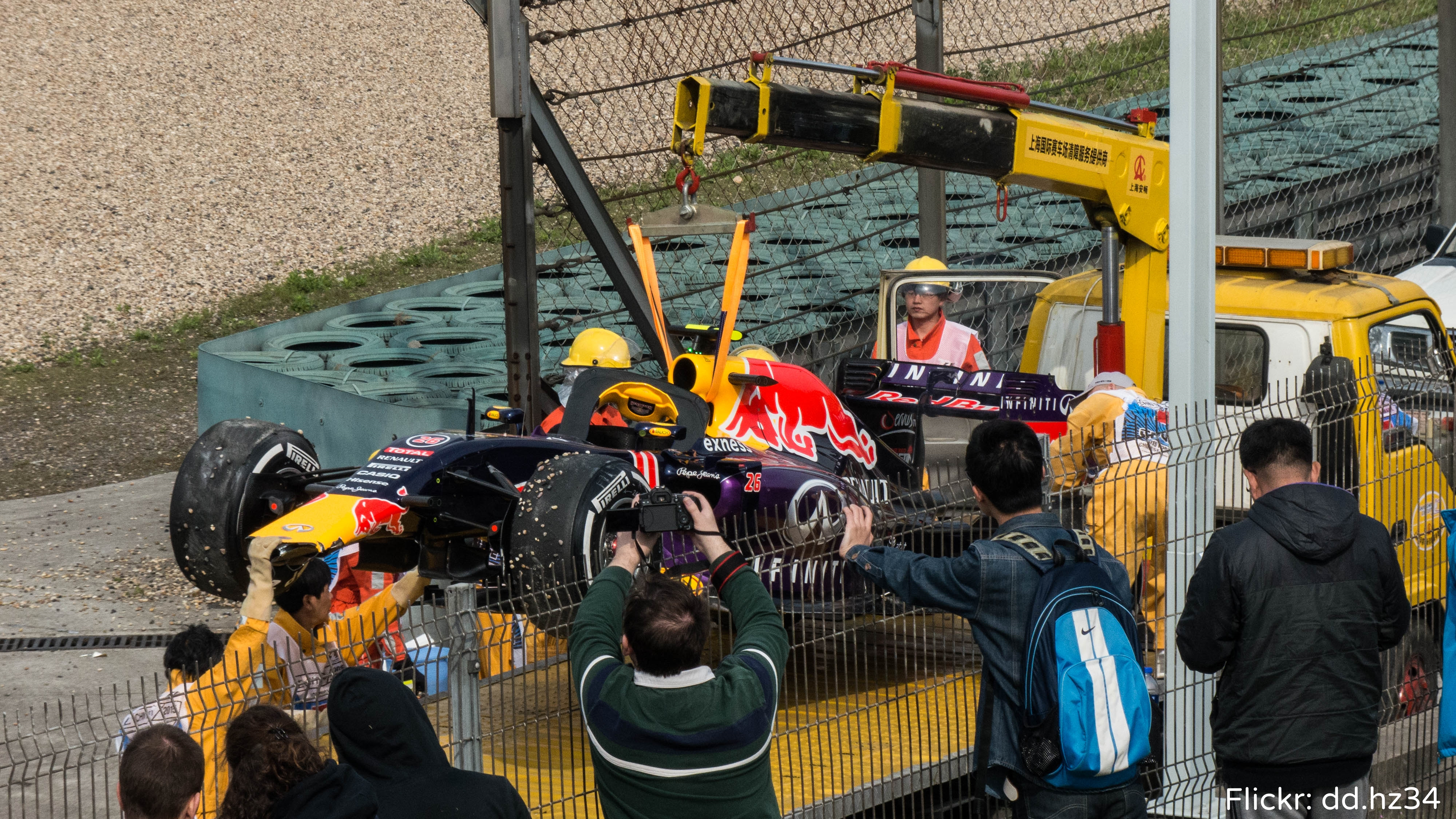 Kvyat retiring from 2015 Chinese Grand Prix